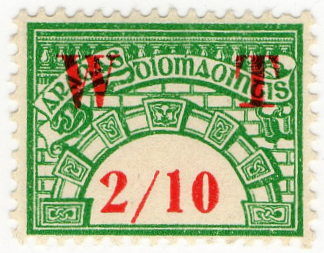 Wet Time insurance stamp of Ireland overprinted 2/10 (two shillings and ten pence) issued in 1960 on 1922 key plate design stamp